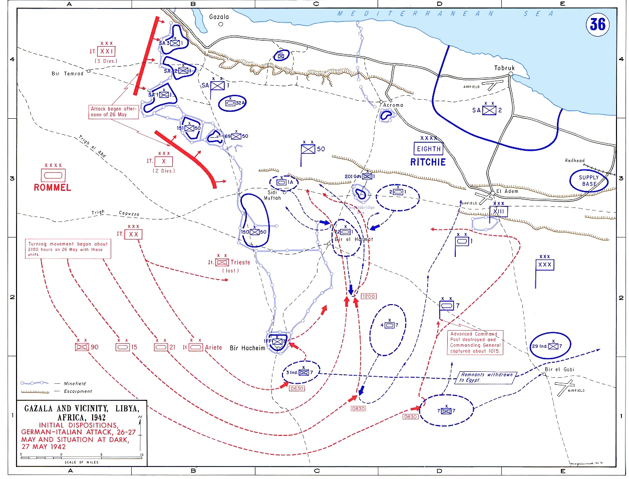 Libya, Initial Dispostions, German-Italian Attack, 26-27 May 1942